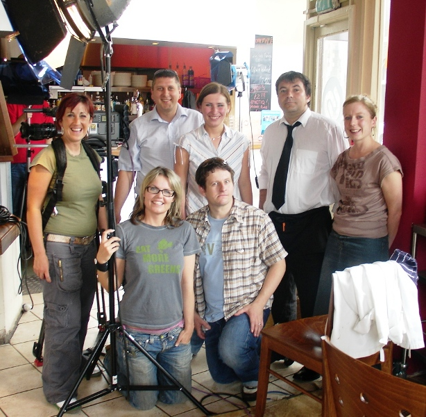 During the making of Bwyta Geiriau, a film made for Welsh television S4C, Club Toucan, Newport Road, Cardiff, from left at the back: Cheryl Jones (sound), Stan Zurek (actor), Ewa Rawińska (actress), Jams Thomas (actor), Llinos Griffin (film maker), kneeling: Lynfa Jenkins (director of photography) and Daf Palfrey (director)